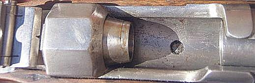 Tapered Barrel-end and sloped Locking-lug of Dreyse M1841.